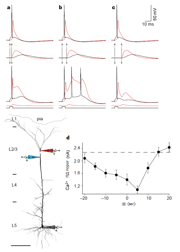 Pairing of a distal EPSP with axonal AP and BAC firing. Adapted from "A new cellular mechanism for coupling inputs arriving at different cortical layers"